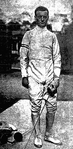 Lucien Gaudin, French fencer and olympic champion both in foil and in épée competition.